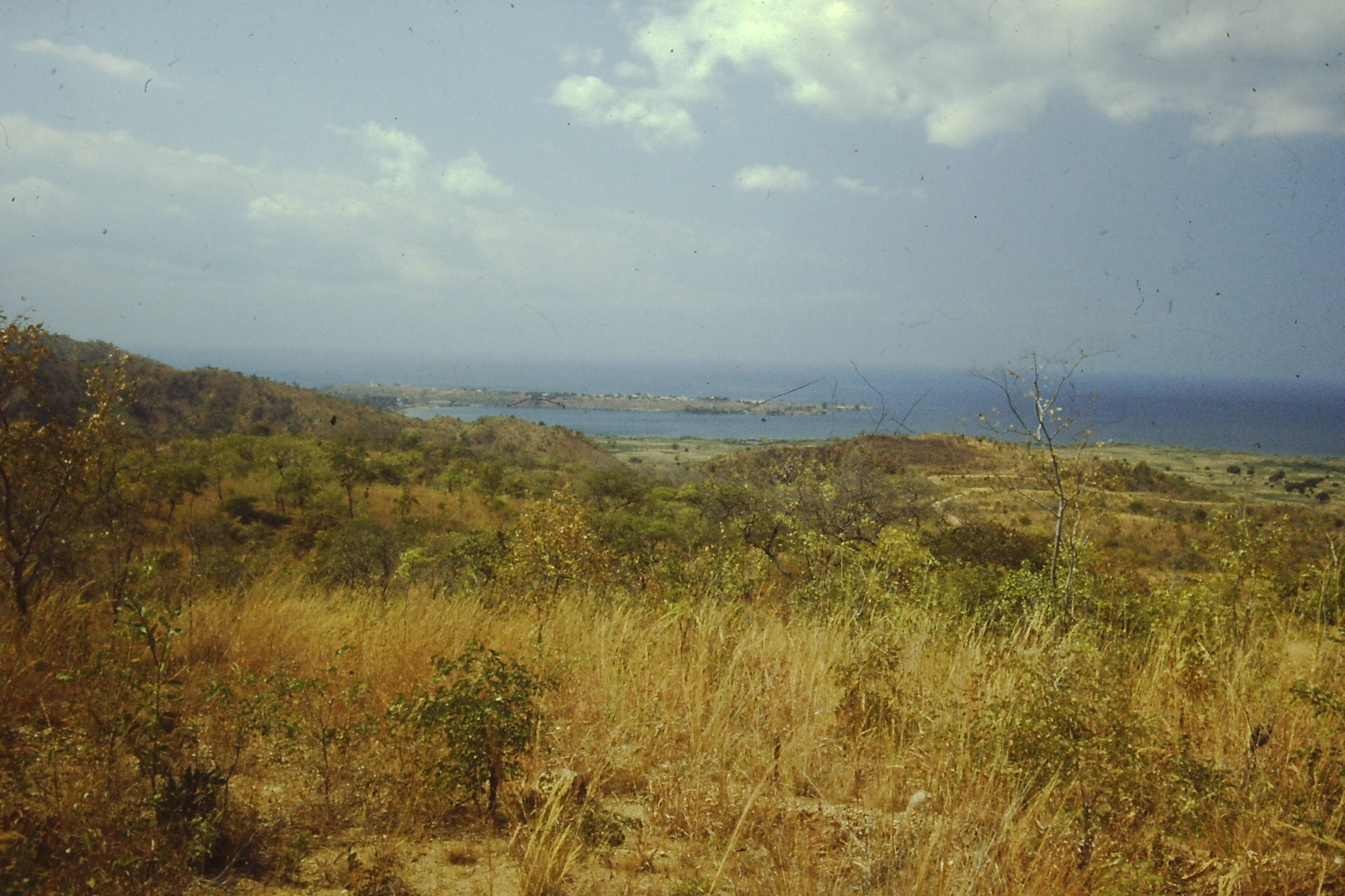 Metangula and his bay, as seen from the road coming down from the Niassa Plateau (1988)